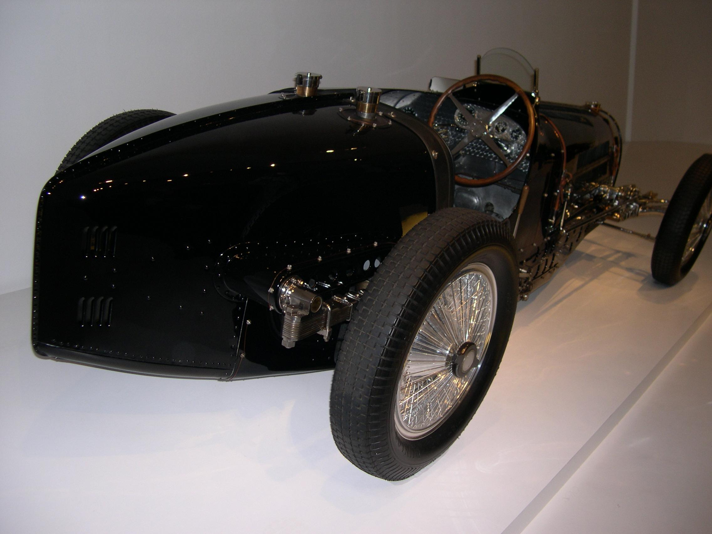 1933 Bugatti Type 59 Grand Prix From the Ralph Lauren collection on display at the Boston Museum of Fine Arts. Photo taken in 2005.